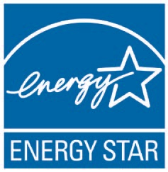 ENERGY STAR